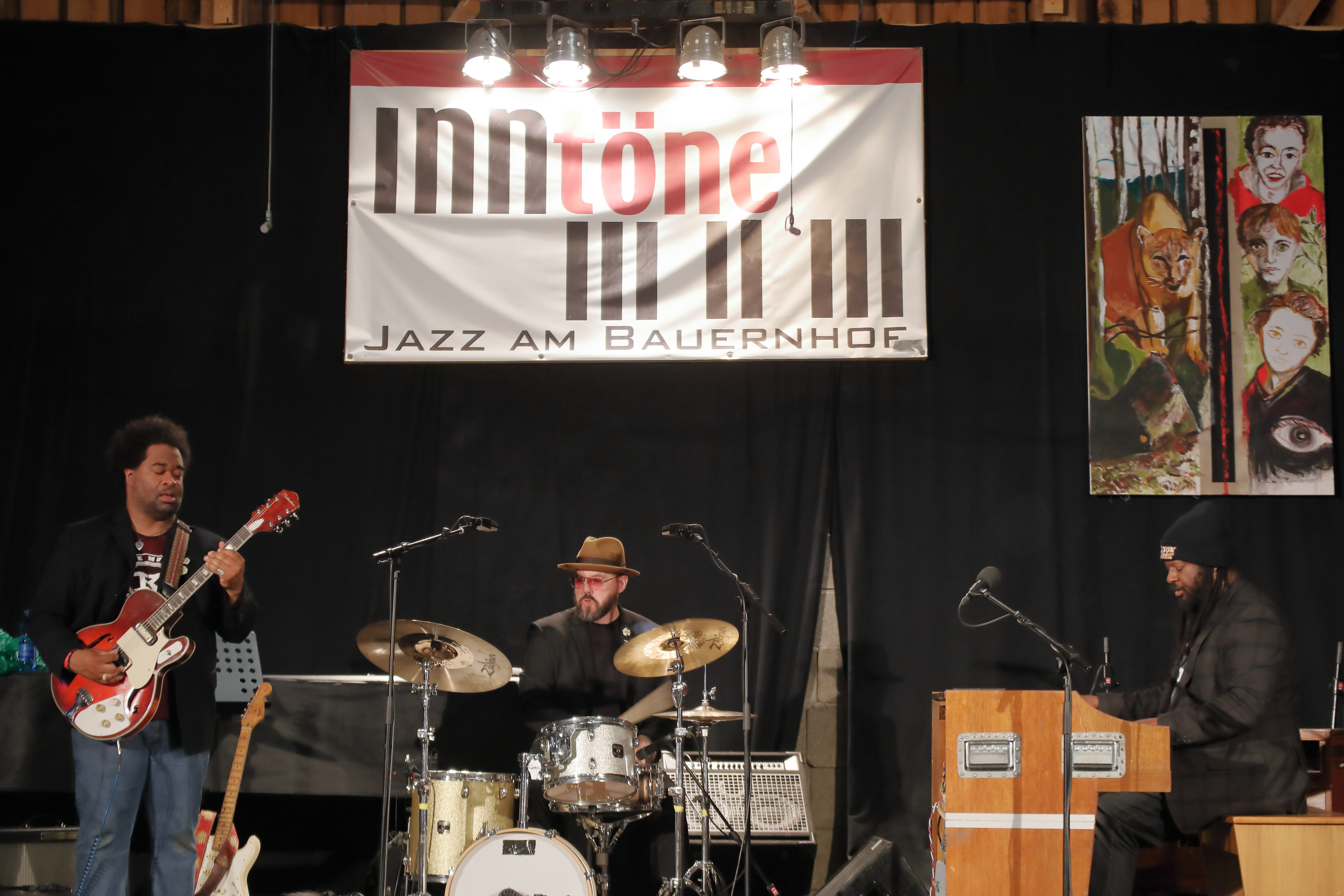 The Delvon Lamarr Organ Trio at INNtöne Jazzfestival 2019. This are Delvon Lamarr (org), Jimmy James (g) & Michael Duffy (dr).